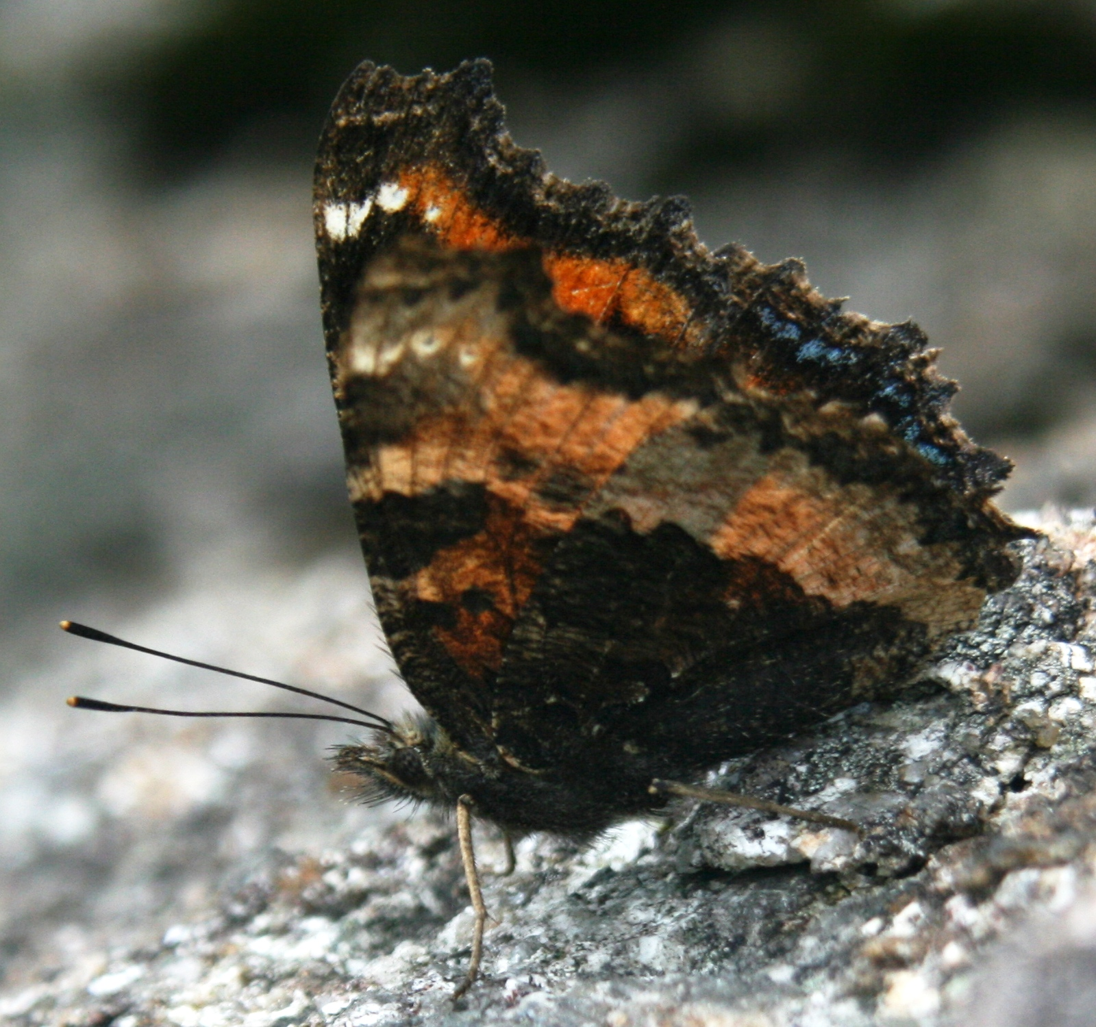 Nymphalis xanthomelas in Mount Gozaisho